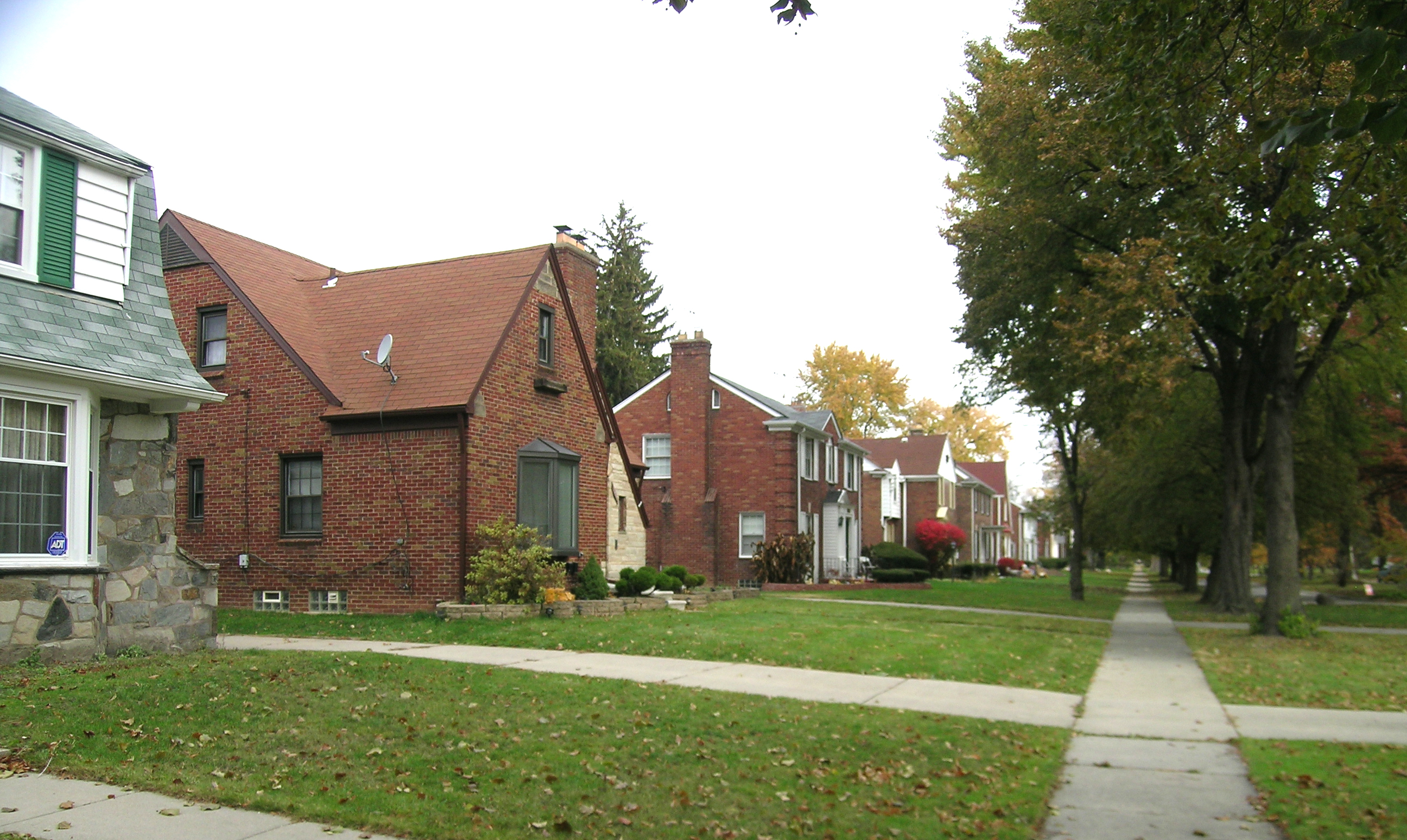 Streetscape on Glastonbury in Rosedale Park Historic District Detroit